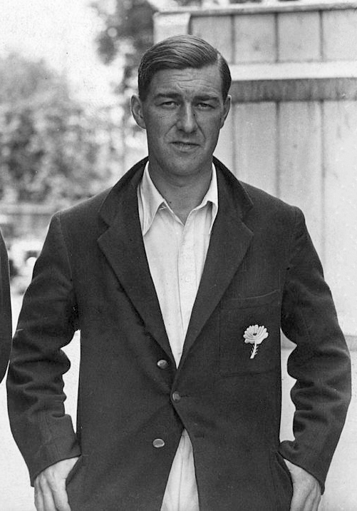 12th July 1946: Norman W. D. Yardley